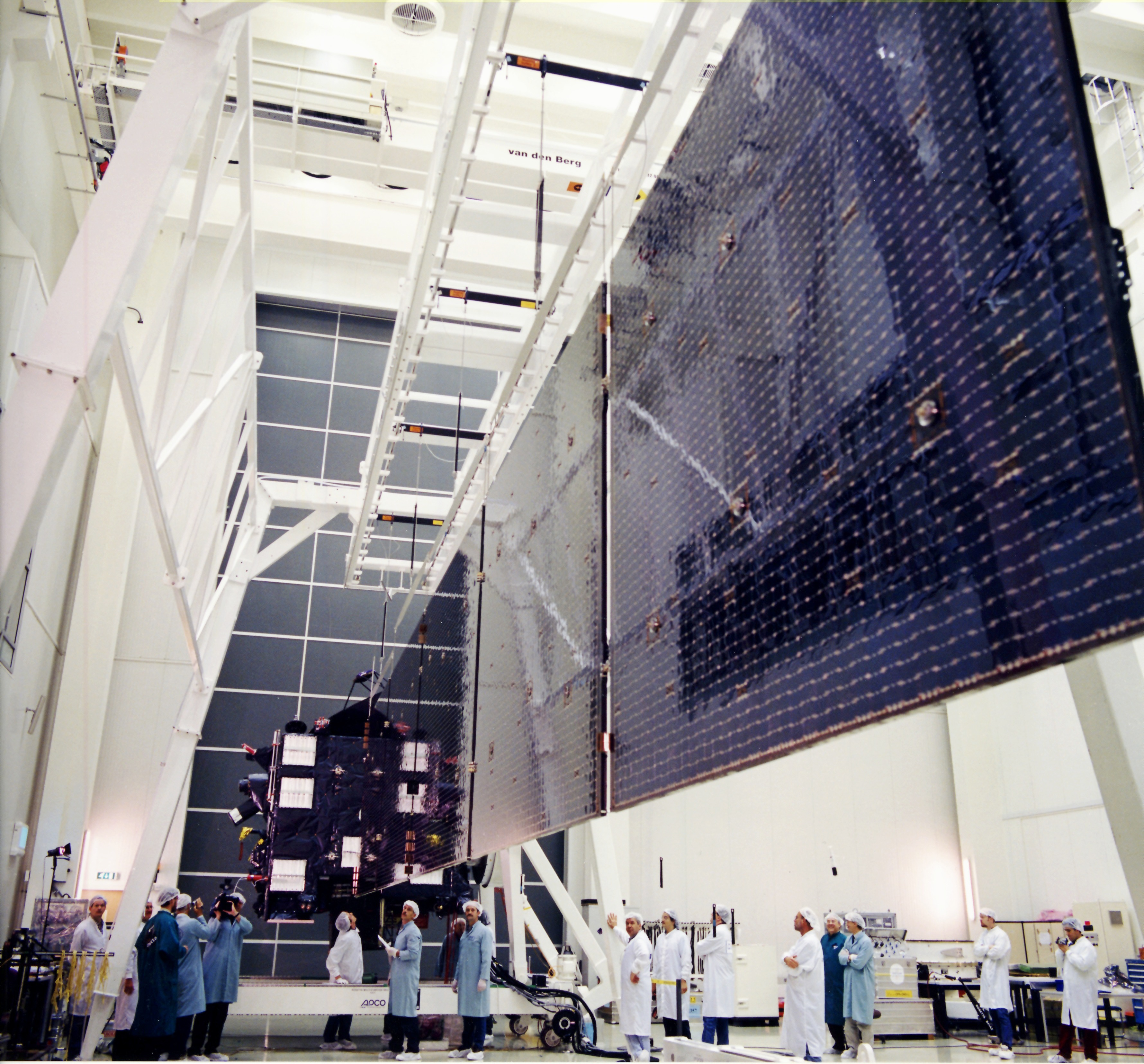 As of January 2014, ESA’s Rosetta spacecraft is far in deep space, preparing for its scheduled August arrival at comet 67P/Churyumov–Gerasimenko. Taken back in May 2002, this image shows Rosetta being checked in the ESTEC Test Centre in Noordwijk, the Netherlands. One of Rosetta’s massive solar wings is undergoing a deployment test, supported on a rig to allow it to unfurl in Earth gravity instead of weightlessness. Each made up of five hinged panels, the pair of wings stretches 32 m tip-to-tip from the box-shaped spacecraft. Steerable, they have provided sufficient solar power to allow Rosetta to operate as far as 800 million km from the Sun, further than any previous solar-powered mission. New ‘LILT’ ‘low intensity low temperature’ solar cells were specially designed for the array. On the top of the spacecraft can be glimpsed Rosetta’s 2.2 m-diameter high-gain antenna, a steerable dish used to return science data to Earth. Credit: ESA-Anneke Le Floc'h